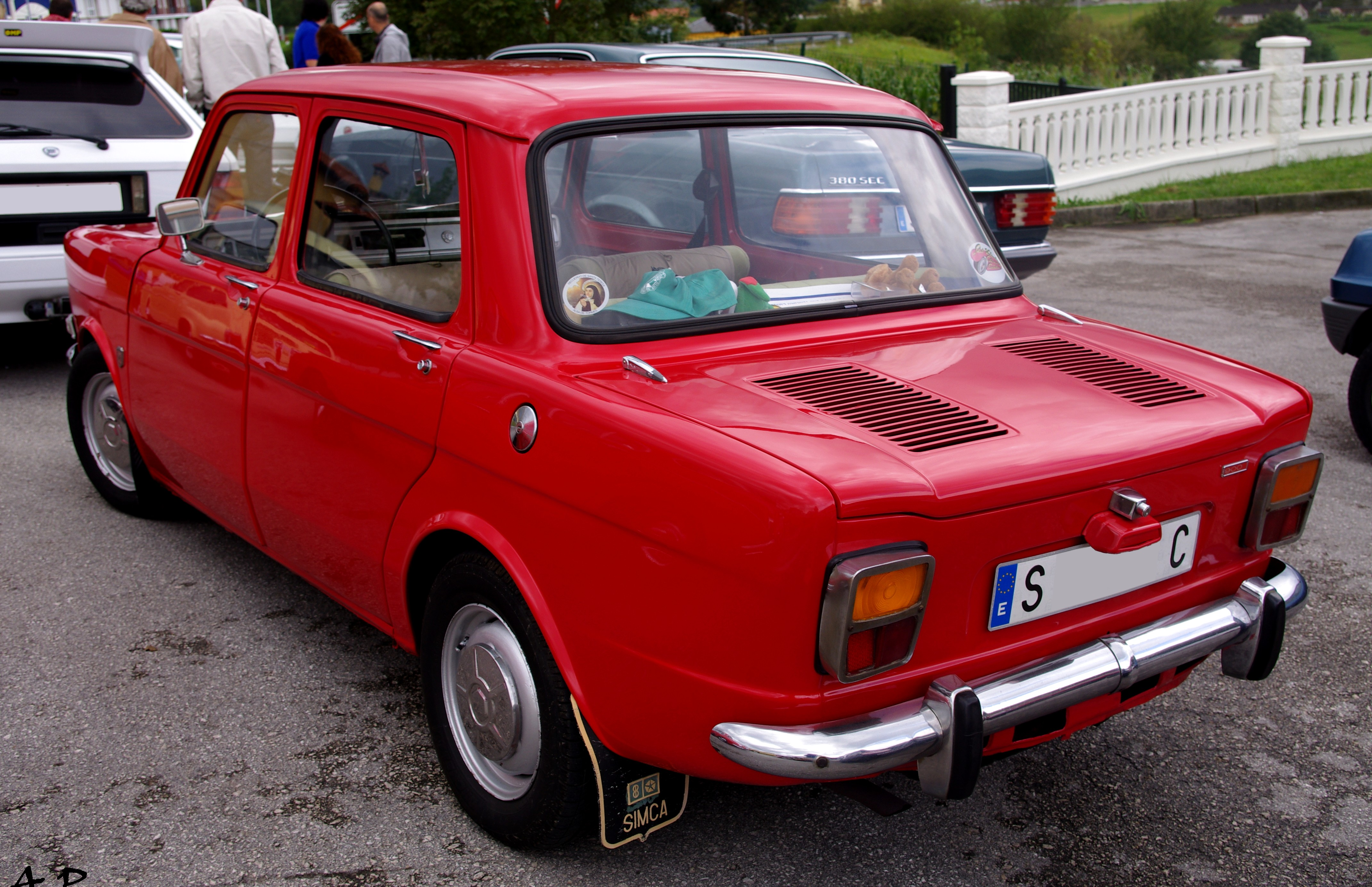 1974 plates from Santander (Cantabria). First time I see a base model 900!